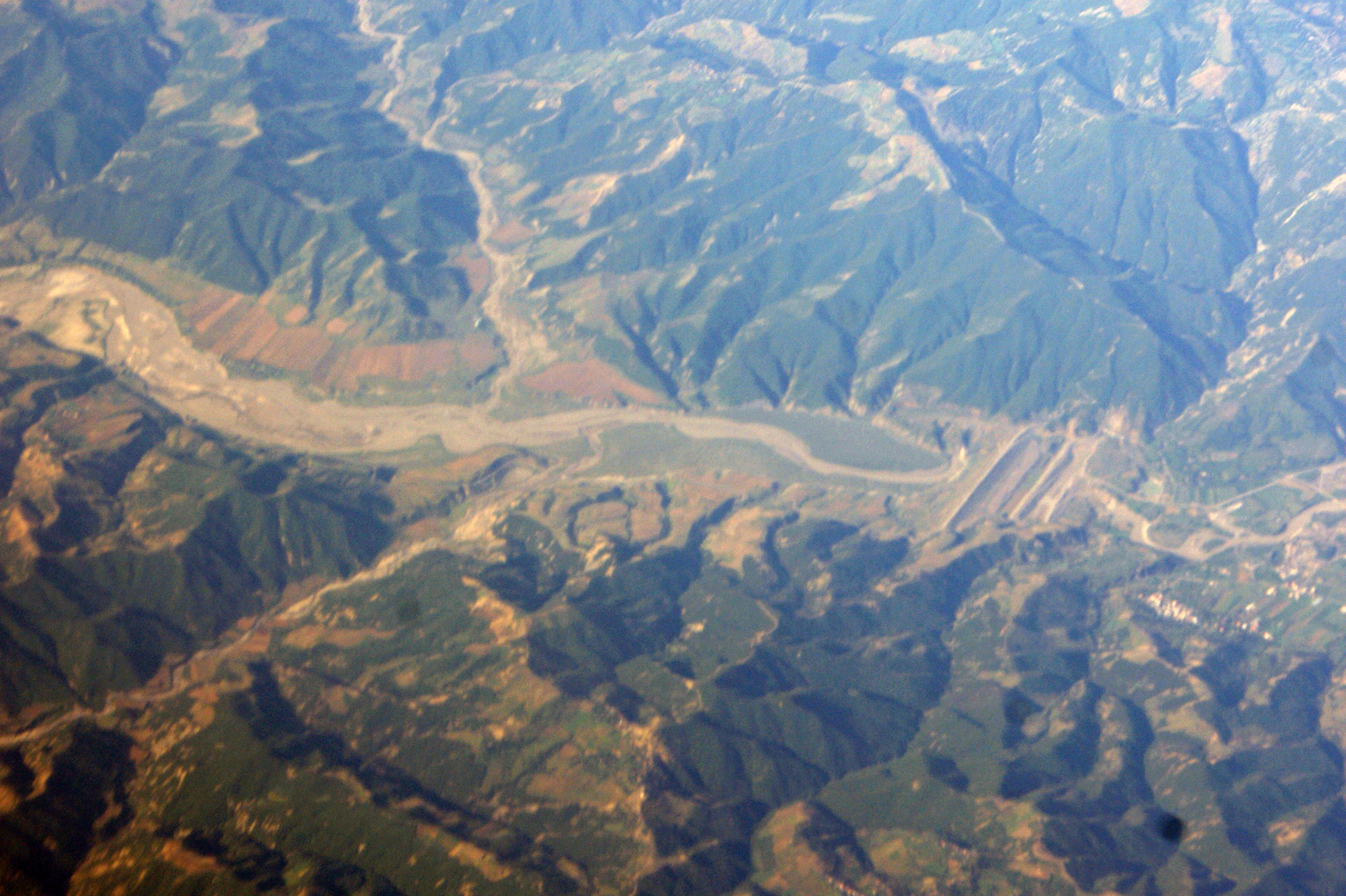 Devoll valley in Southern Albania with remains of unfinished Banja Dam